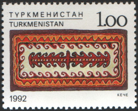 Stamp of Turkmenistan 1992. Author - Post of Turkmenistan.